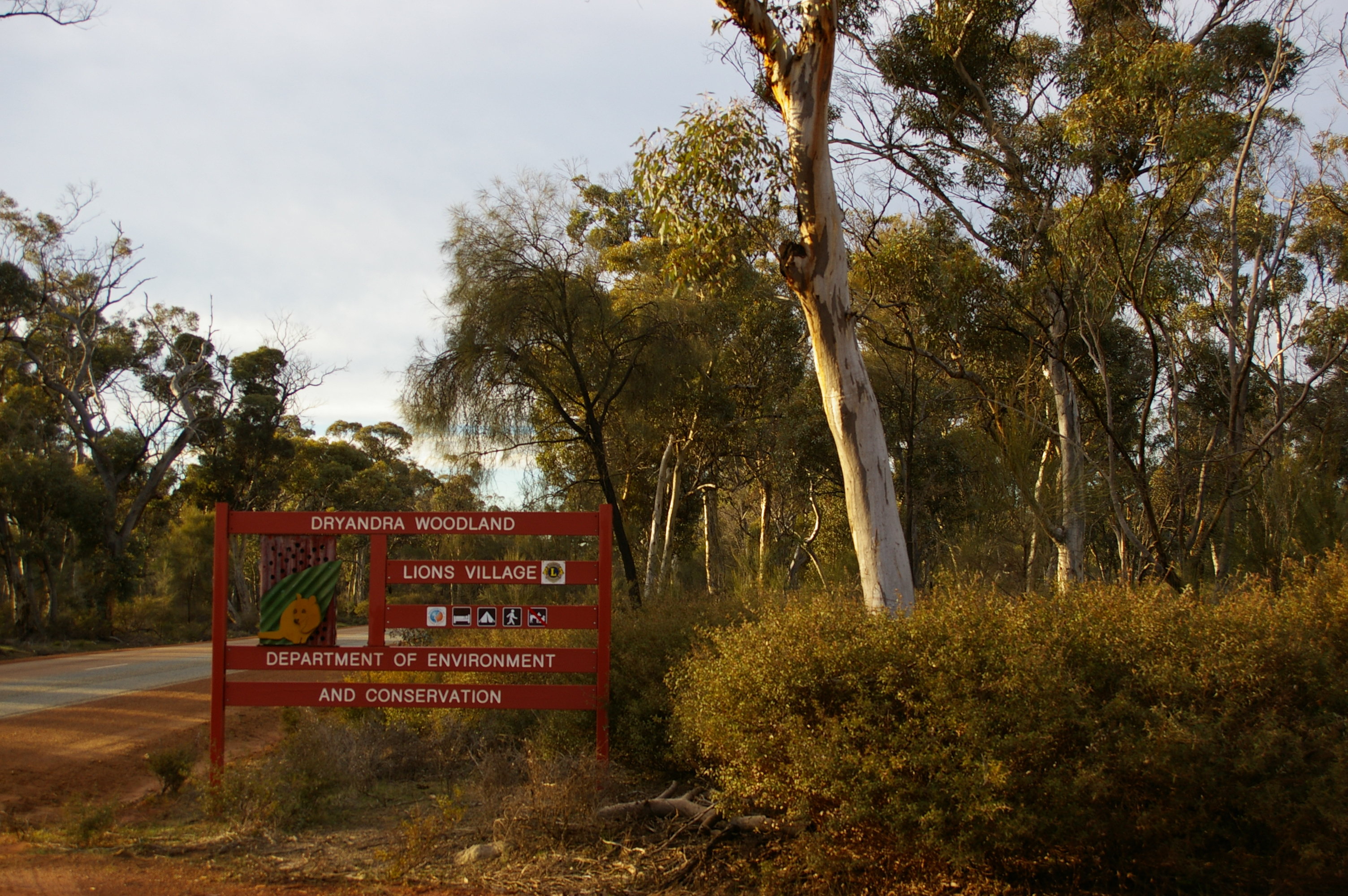 Entrance to the Dryandra Woodland Lion Village